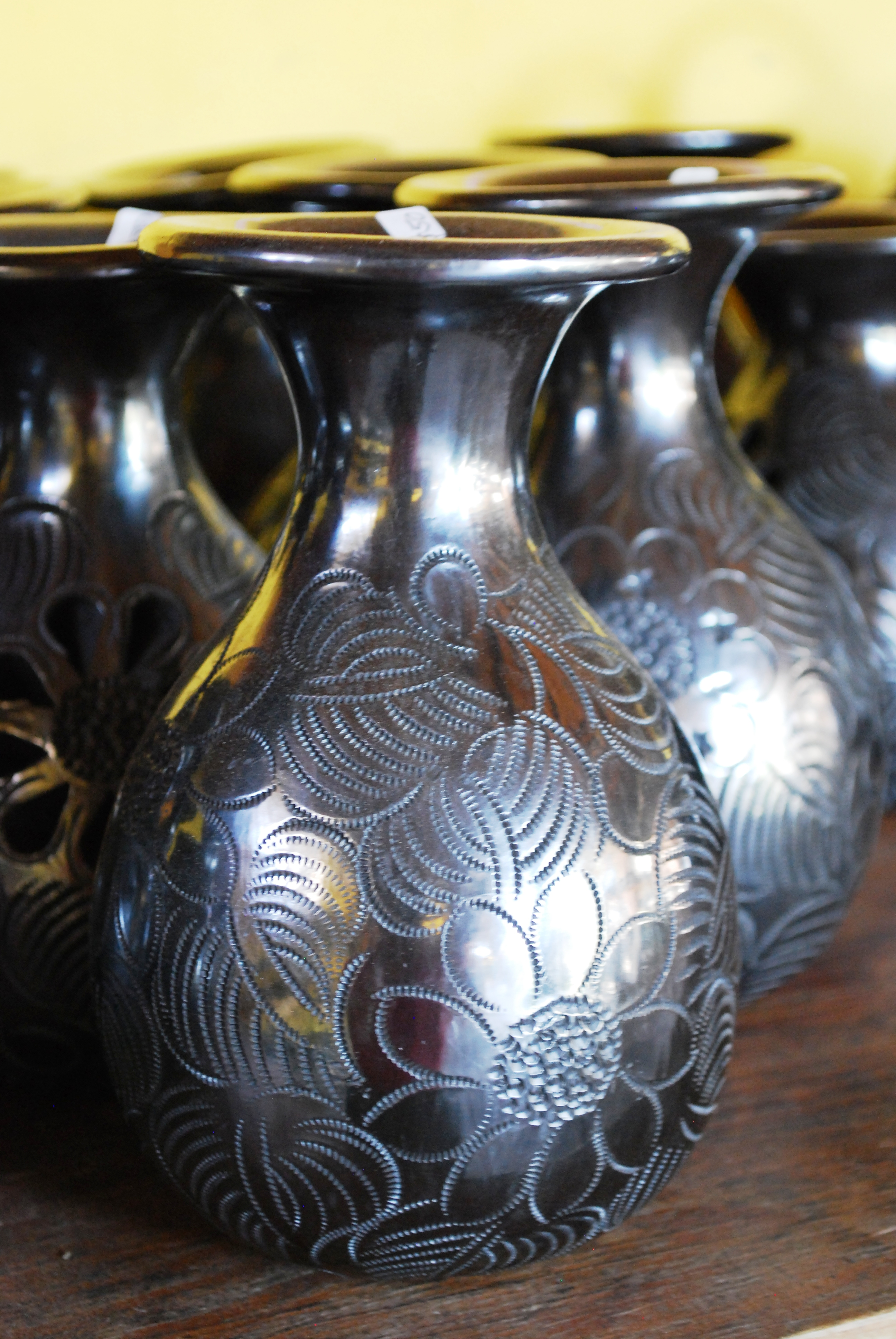 Vases for sale at the Doña Rosa Workshop in San Bartolo Coyotepec, Oaxaca, Mexico